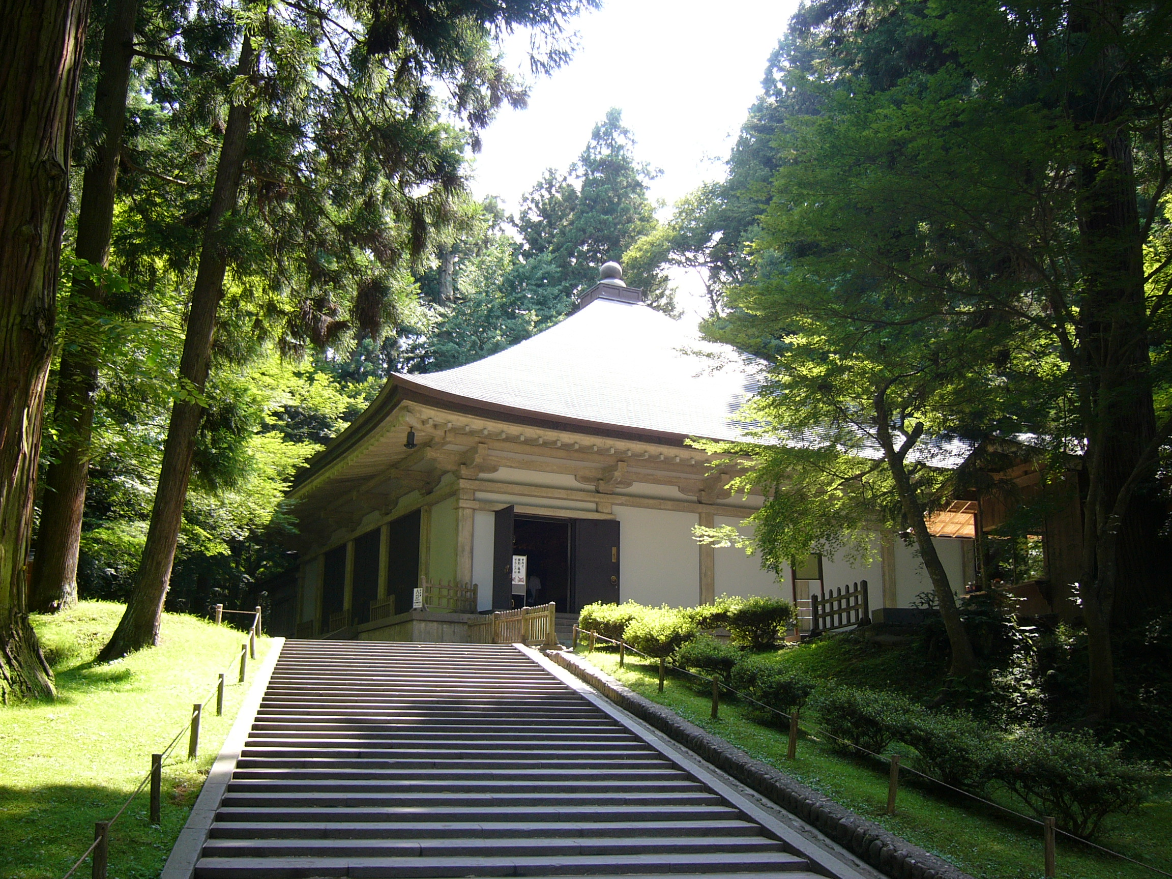 Pod hall of Konjiki-dō (Golden Hall) at Chūson-ji Temple in Hiraizumi, Iwate Prefecture.